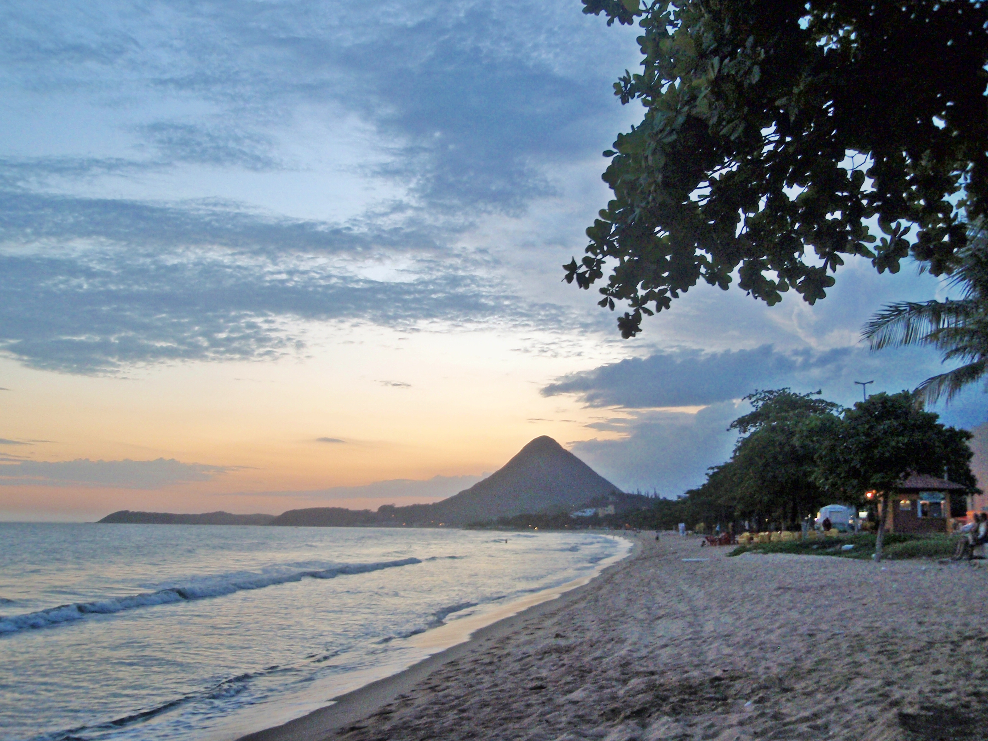 The Corujão Beach with the Aghá Mount in the background, in Piúma, Espírito Santo, Brazil.